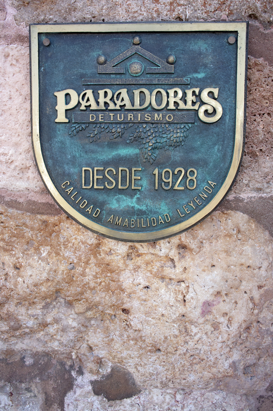 Logotype of Paradores in Parador de Lerma main entrance (Province of Burgos)